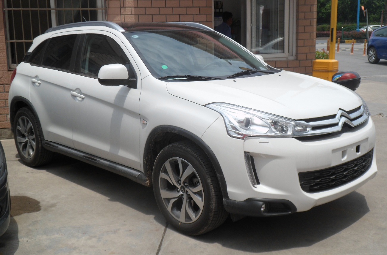 Citroën C4 Aircross photographed in Shanghai, China.